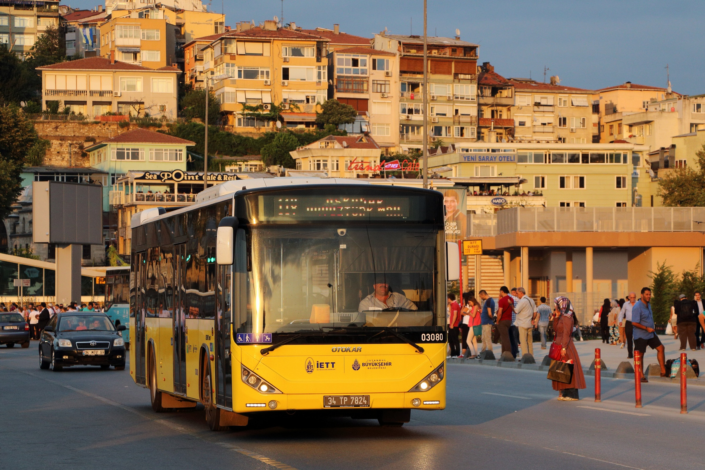 City bus in Istanbul (Otokar Kent 290LF)